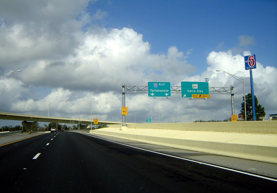 Newly completed interchange of Interstate 110 and Interstate 10 from the northbound lanes of Interstate 110, Pensacola, Florida.